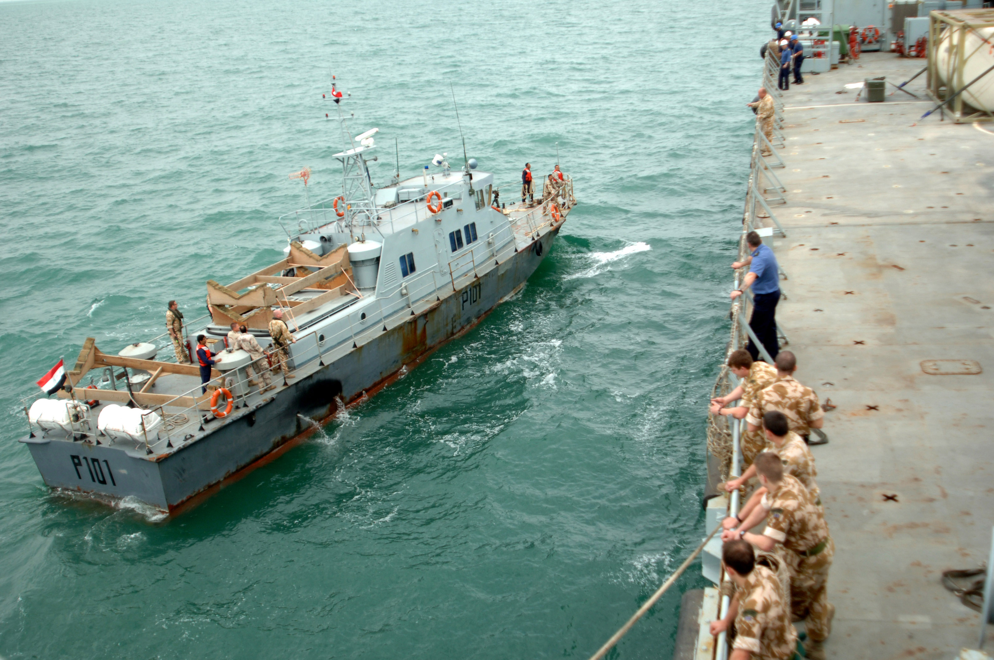 PERSIAN GULF (March 28, 2007) - Iraqi Navy Ship P 101 pulls alongside Royal Forces Auxiliary Ship Sir Bedivere (L 3004) in the Persian Gulf. The Royal Marines will embark HMS Cornwall (F 99), in support of Maritime Security Operations (MSO). MSO help set the conditions for security and stability in the maritime environment, as well as complement the counter-terrorism and security efforts of regional nations. These operations deny international terrorists use of the maritime environment as a venue for attack or to transport personnel, weapons or other material. U.S. Navy photo by Mass Communication Specialist 2nd Class Michael Zeltakalns (RELEASED)